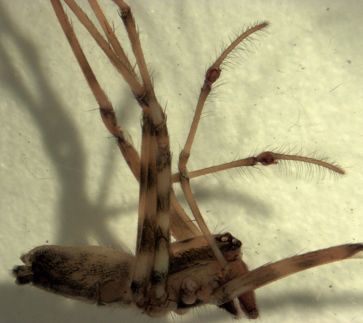 adult male Nanocambridgea gracilipes